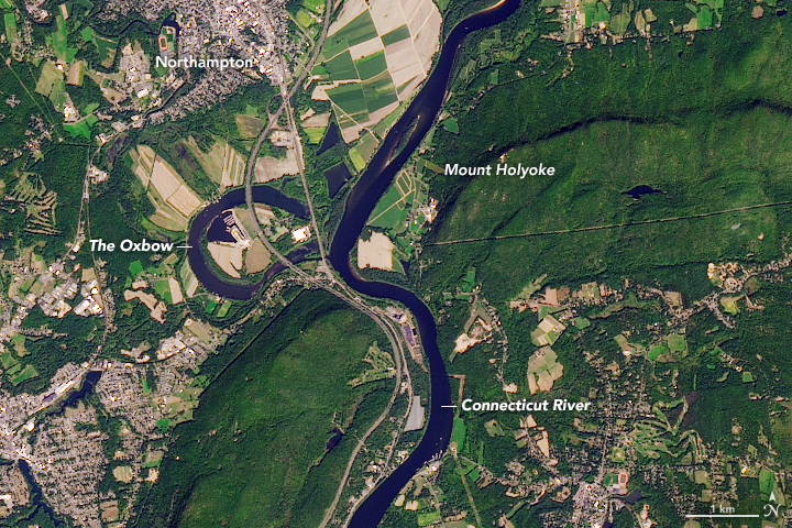 The oxbow on the Connecticut River near Northampton, Massachusetts, holds a distinctive place in art history. The feature is the centerpiece of Thomas Cole’s 1836 masterpiece The Oxbow (shown below)—a painting famous for raising questions about the interplay between civilization and the natural world. The painting juxtaposes untamed forests near the summit of Mount Holyoke with a more pastoral scene of cultivated farmland on the far side of the river. On April 18, 2017, the Operational Land Imager (OLI) on Landsat 8 captured a top-down view of the same terrain. Though some elements of the landscape are reminiscent of Cole’s painting—such as the largely undeveloped forests on Mount Holyoke—the passage of time has brought significant change to this stretch of the river. When Cole composed his painting, the oxbow was a sharp meander that was still fully connected to the river. However, in 1840, spring floodwaters burst through the narrowest part of the bend (the area is partially blocked by the hill in the foreground of Cole’s painting) and began to cut the oxbow off from the rest of the river. The construction in 1843 of a railroad bridge between the oxbow pond and the river further separated them. [More at source]